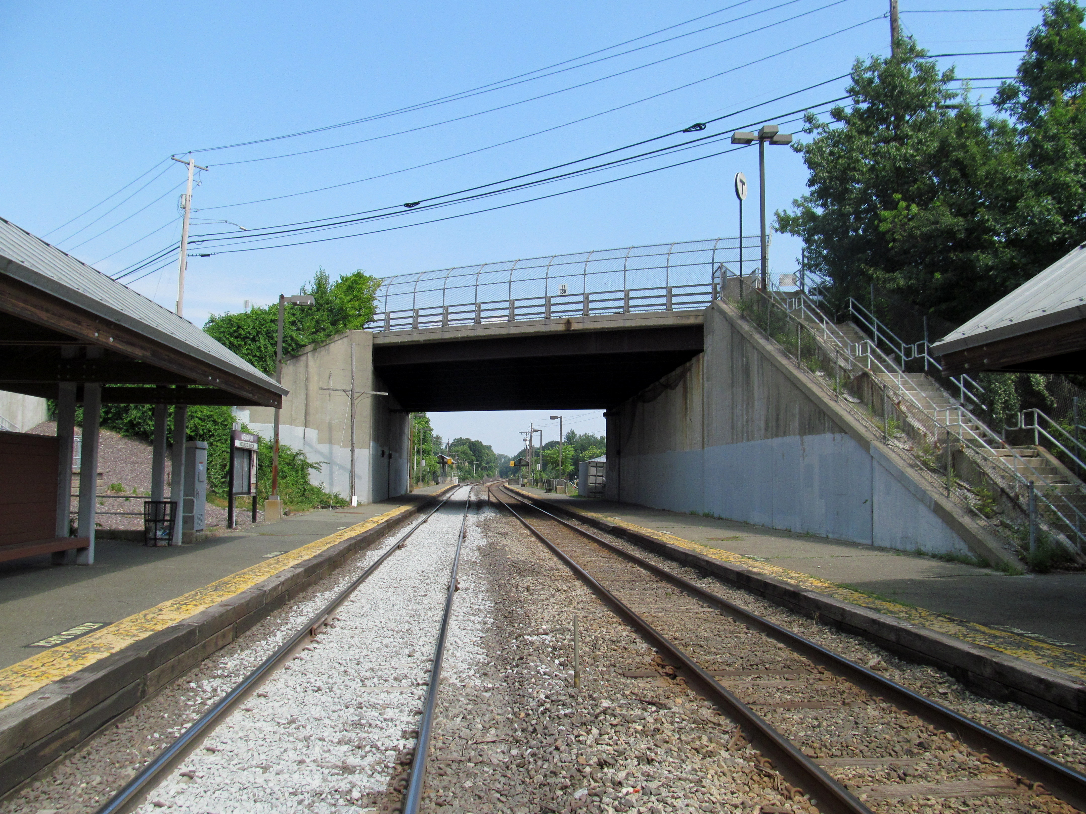 Mishawum Road bridge over Mishawum station